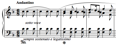 Excerpt from Chopin's Ballade No. 2, in F major, Opus 38